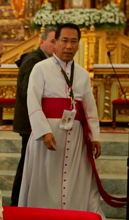 John F. Du, of the Archbishop of the Archdiocese of Palo